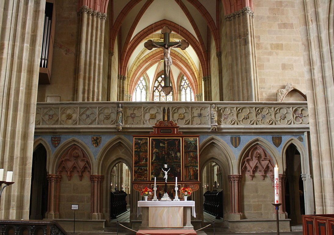 Meissen, Cathedral, gothic lectorium and the East Choir